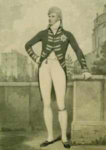 1802 drawing of Ernest, Duke of Cumberland (later King of Hanover). He wears Windsor Uniform and leans upon the fortifications of Windsor Castle.